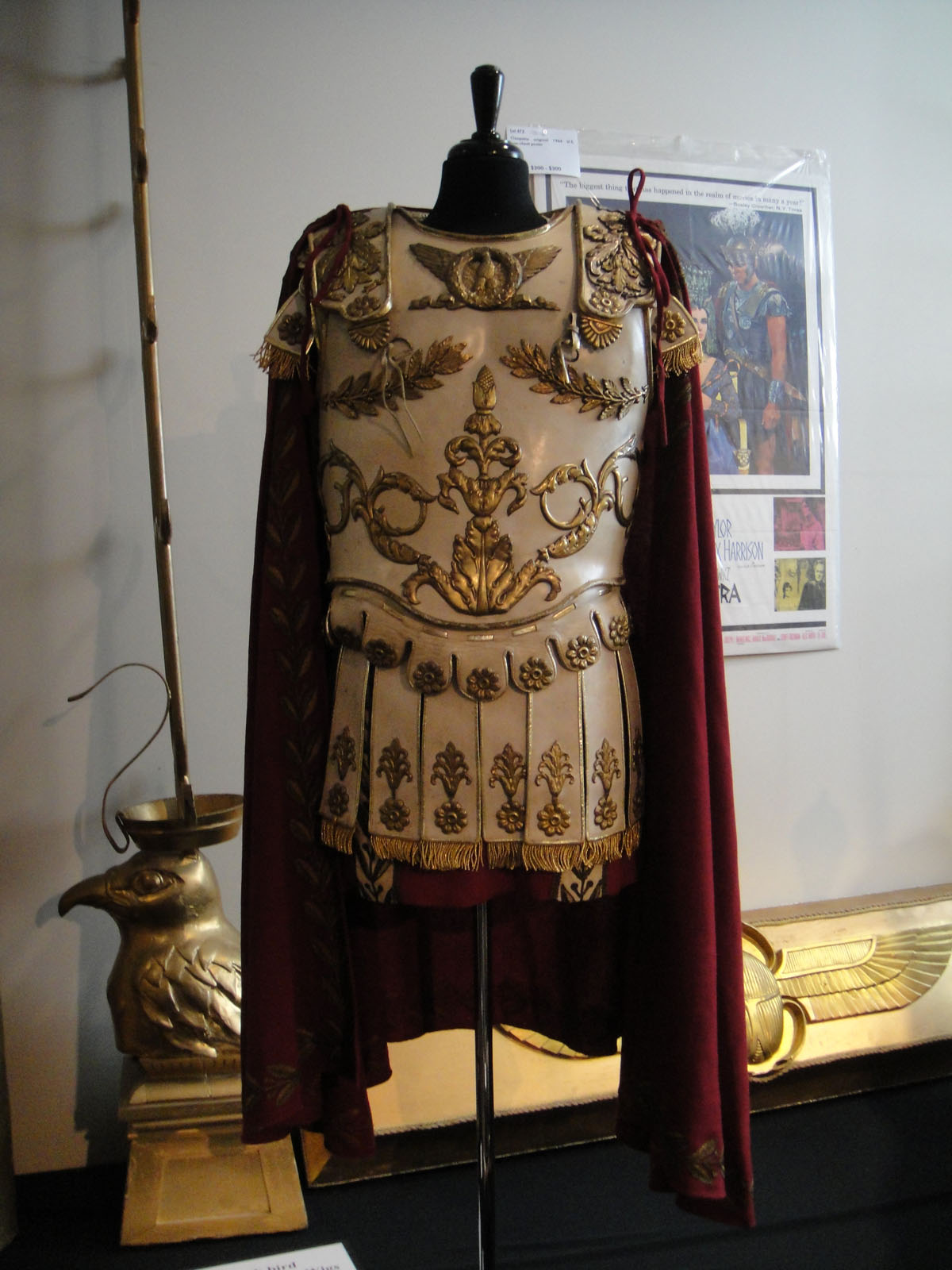 Costume worn by Richard Burton in the film Cleopatra (1963) at the Debbie Reynolds Auction Breaks Up Historic Hollywood Collection (The Paley Center for Media in Beverly Hills, Los Angeles, CA, USA). Designed by Irene Sharaff.